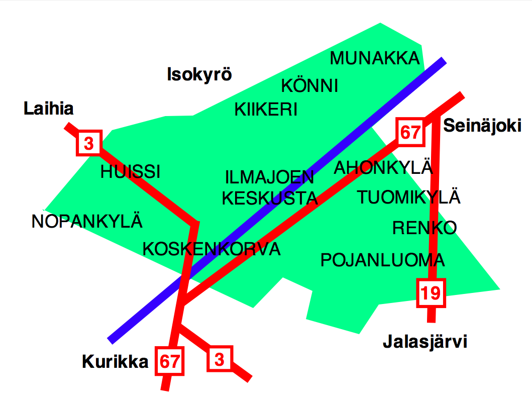 Villages, main roads and neighbouring communities of Ilmajoki, Finland.